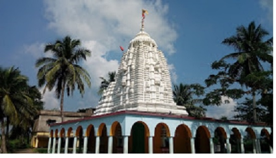 Garteswar Mahadev one of the famous temple of Rajnagar. Here Mahadev worshiped as "Garteswar". Shiv Vibah and Shiv Ratri are two famous festivals of this temple.